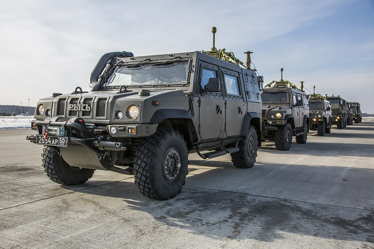 Deployment of the International Mine Action Centre for mine-clearing operations in Palmyra